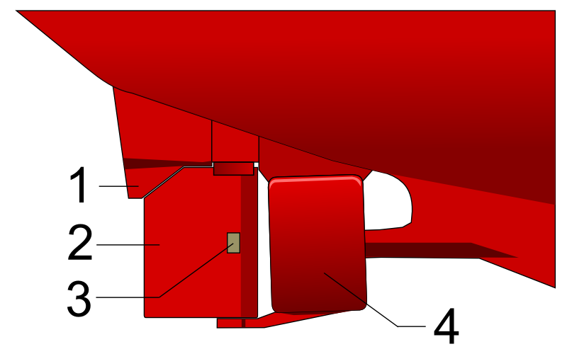 1. Ice horn; 2. Rudder; 3. Galvanic anode; 4. Ducted propeller, also known as a Kort nozzle